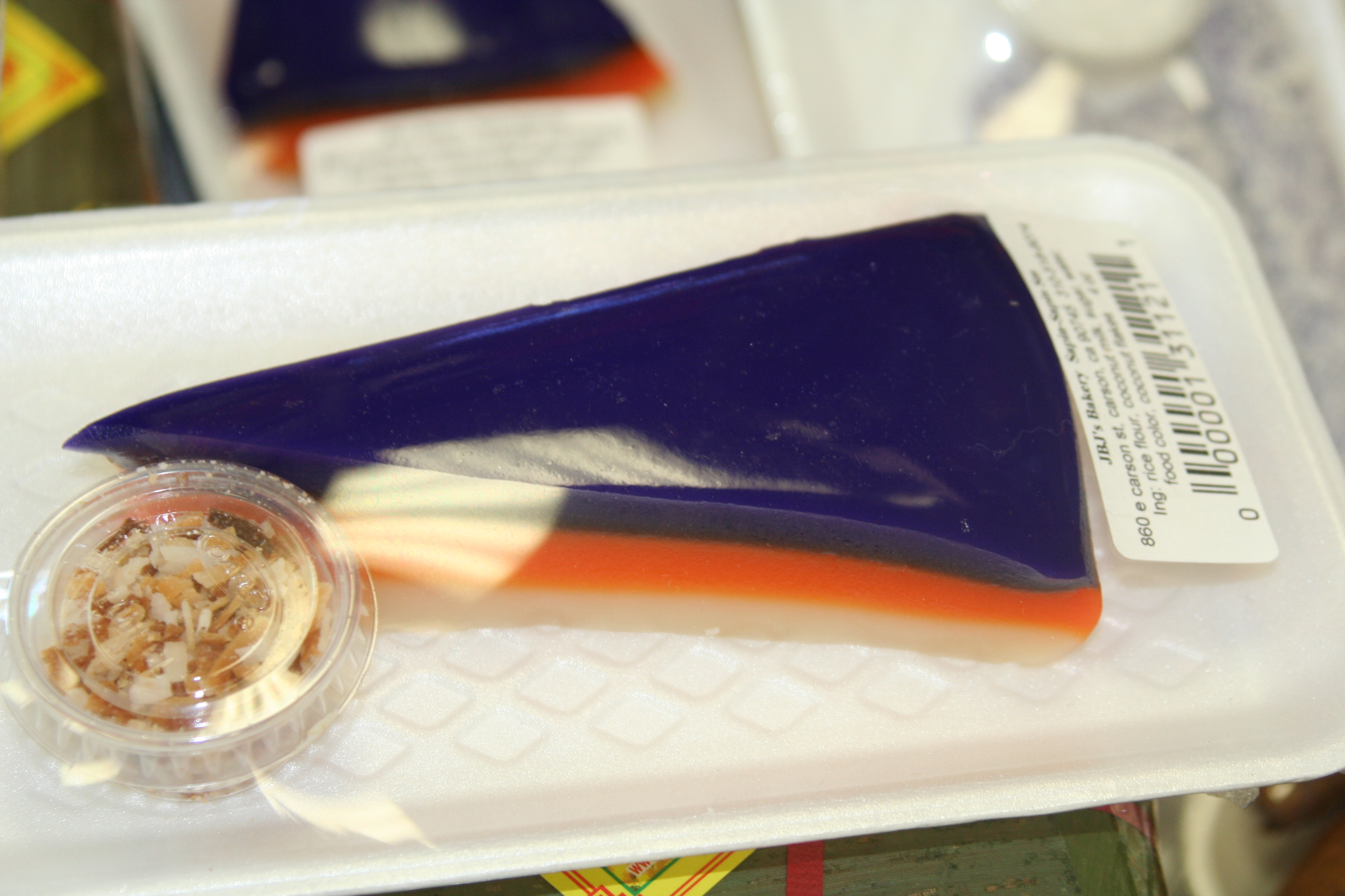 Sapin-sapin for sale at a market in California in 2009.